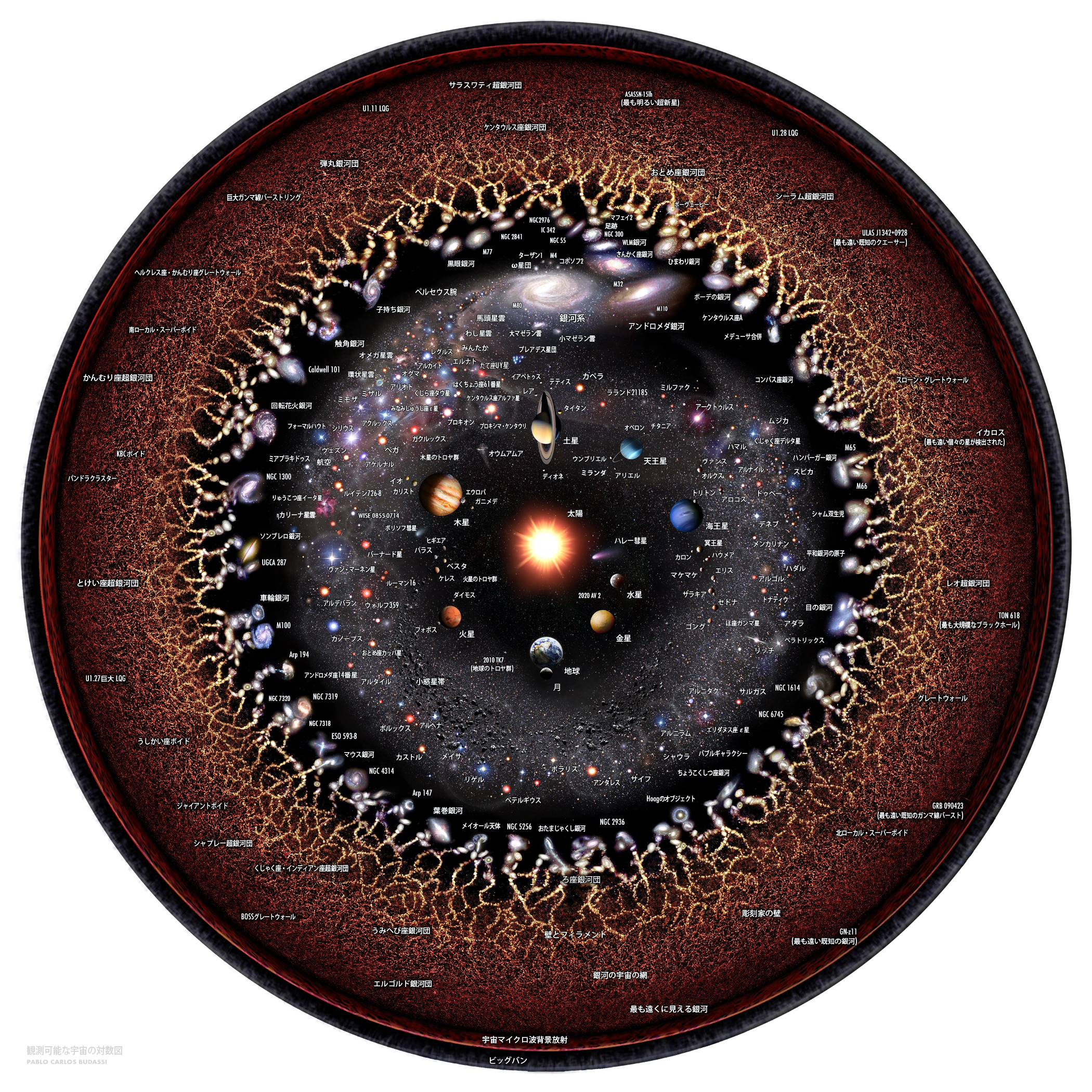 Logarithmic scale conception of the observable universe with the Solar System at the center, inner and outer planets, Kuiper belt objects, Alpha Centauri, Perseus Arm, Milky Way galaxy, Andromeda galaxy, nearby galaxies, Cosmic Web, Cosmic microwave radiation and Big Bang's invisible plasma on the edge. Distance from Earth increases exponentially from the center to the edge. Celestial bodies are shown enlarged to appreciate their shapes.